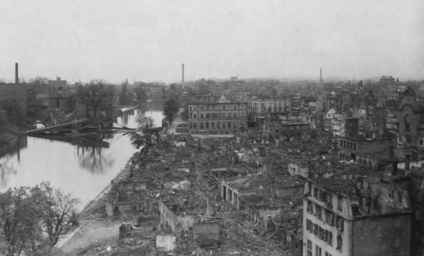 Panorama of wreckage done to Heilbronn, Germany by Allied Air Force Attacks